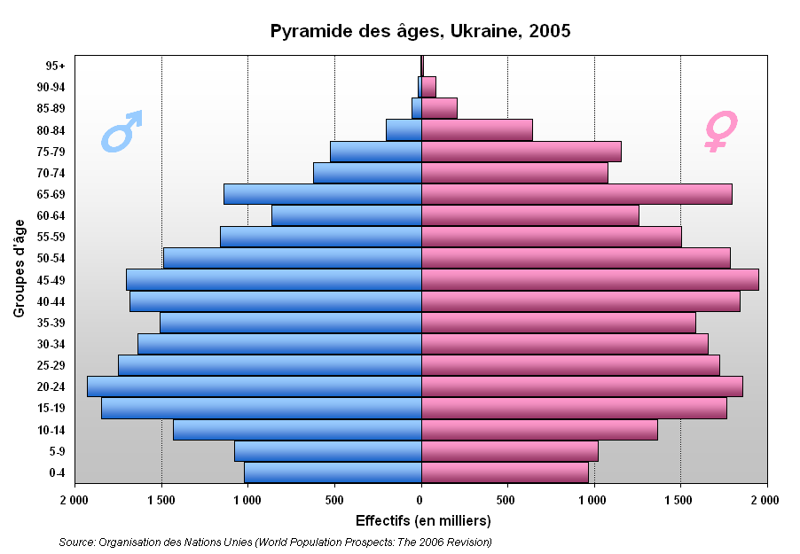 Ukraine Population pyramid, 2005